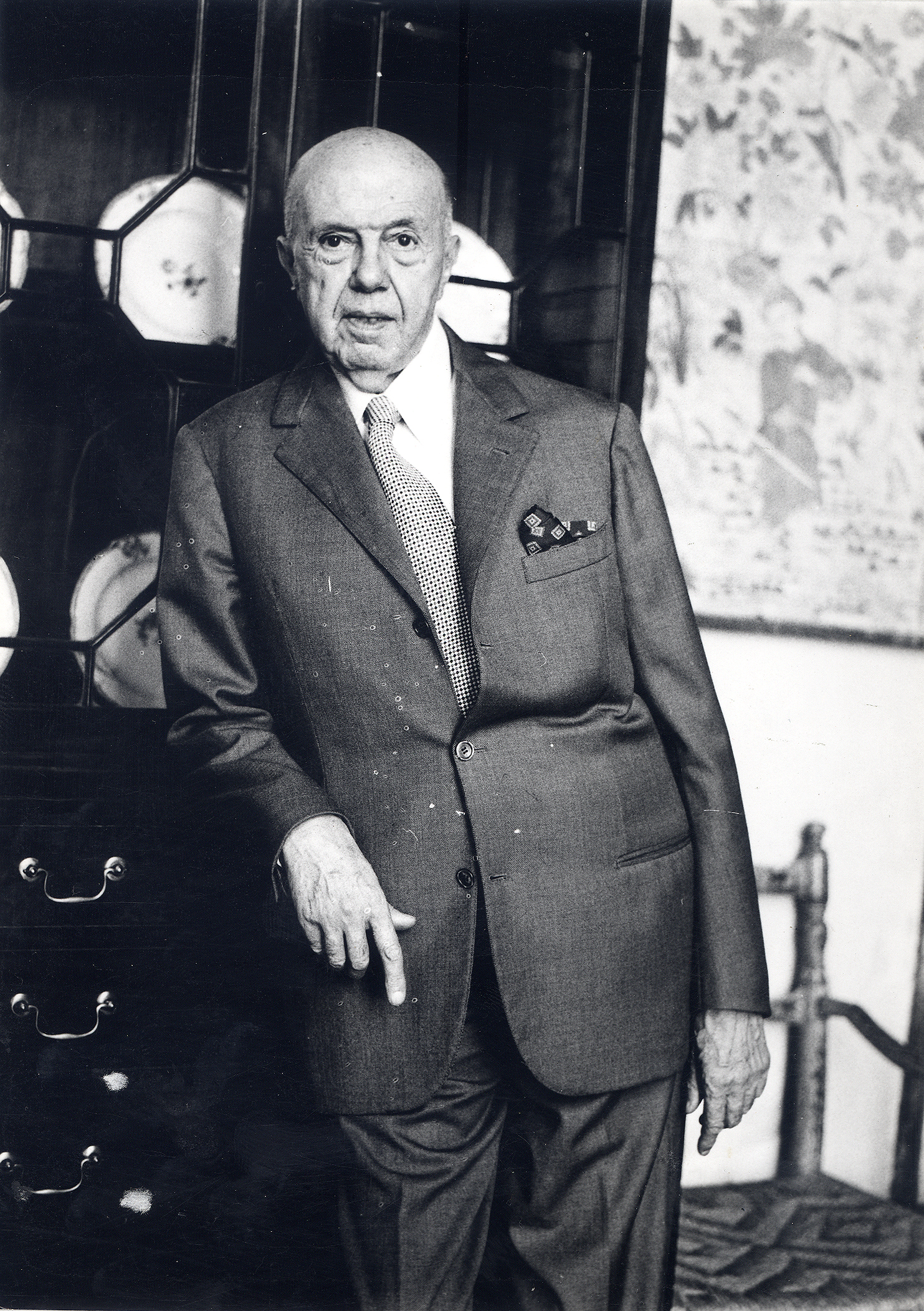 Portrait of Pietro Accorsi